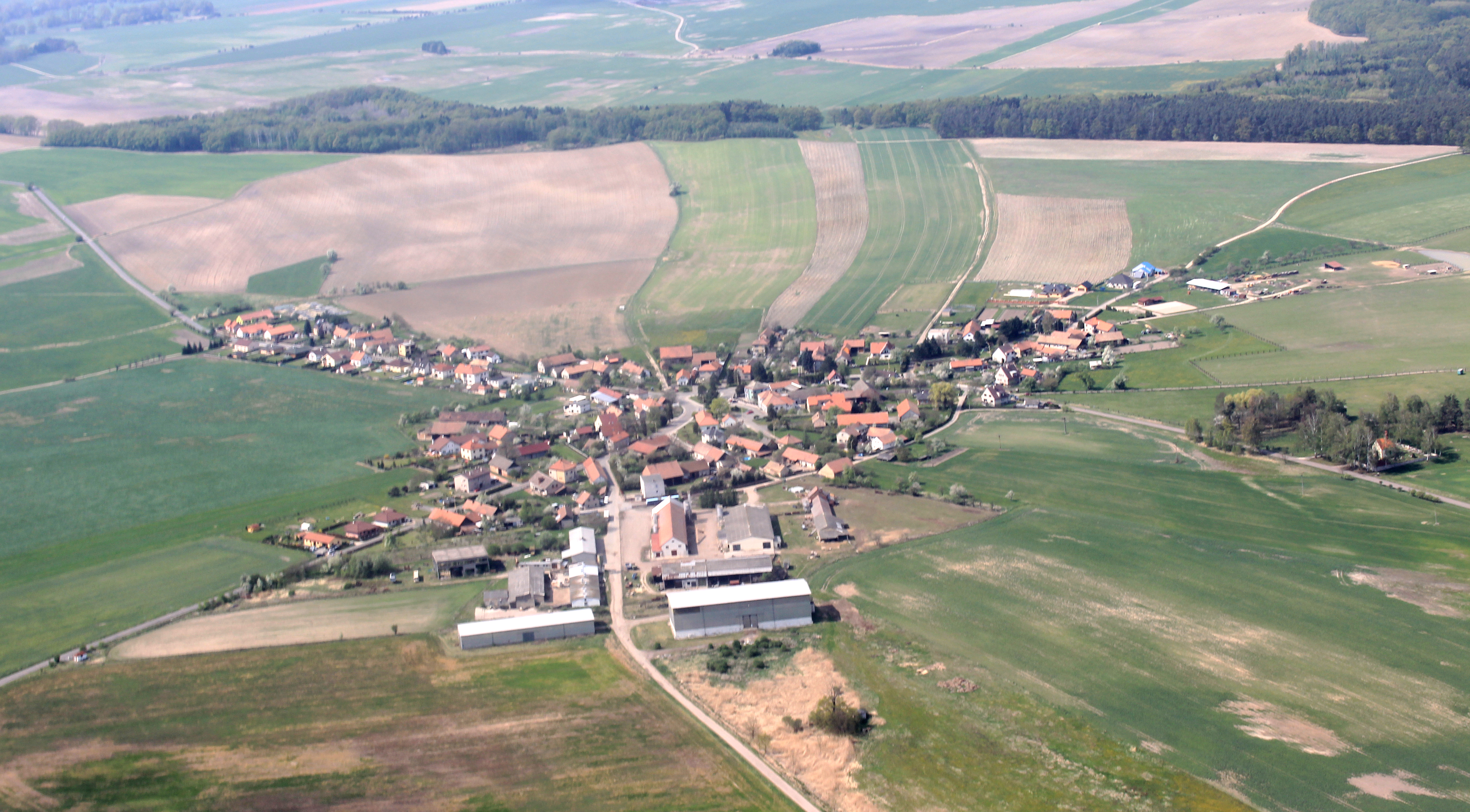 Village Borek from air, eastern Bohemia, Czech Republic